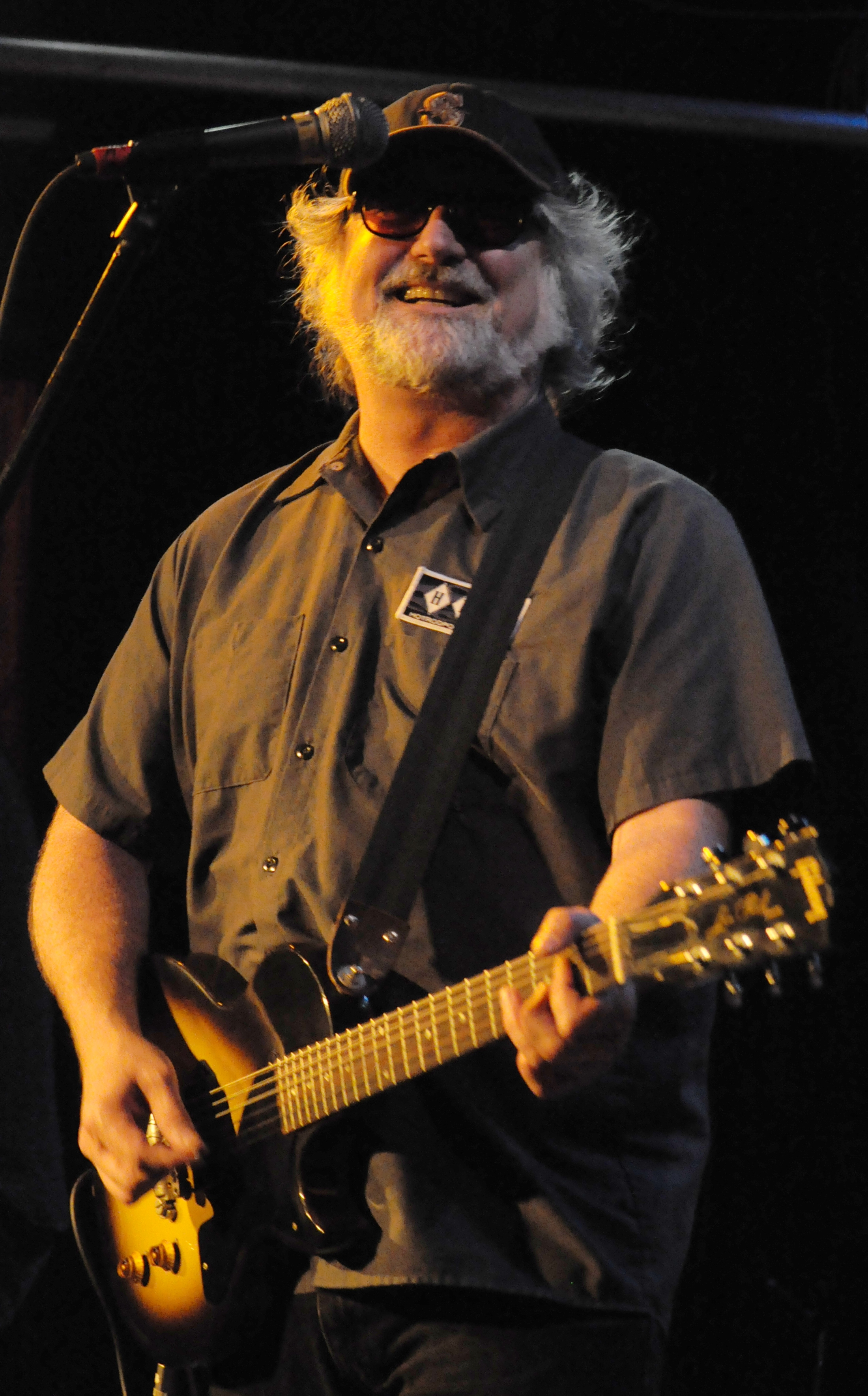 Linda Pitmon and Scott McCaughey performing with The Baseball Project at the Tractor, Ballard, Seattle, Washington.